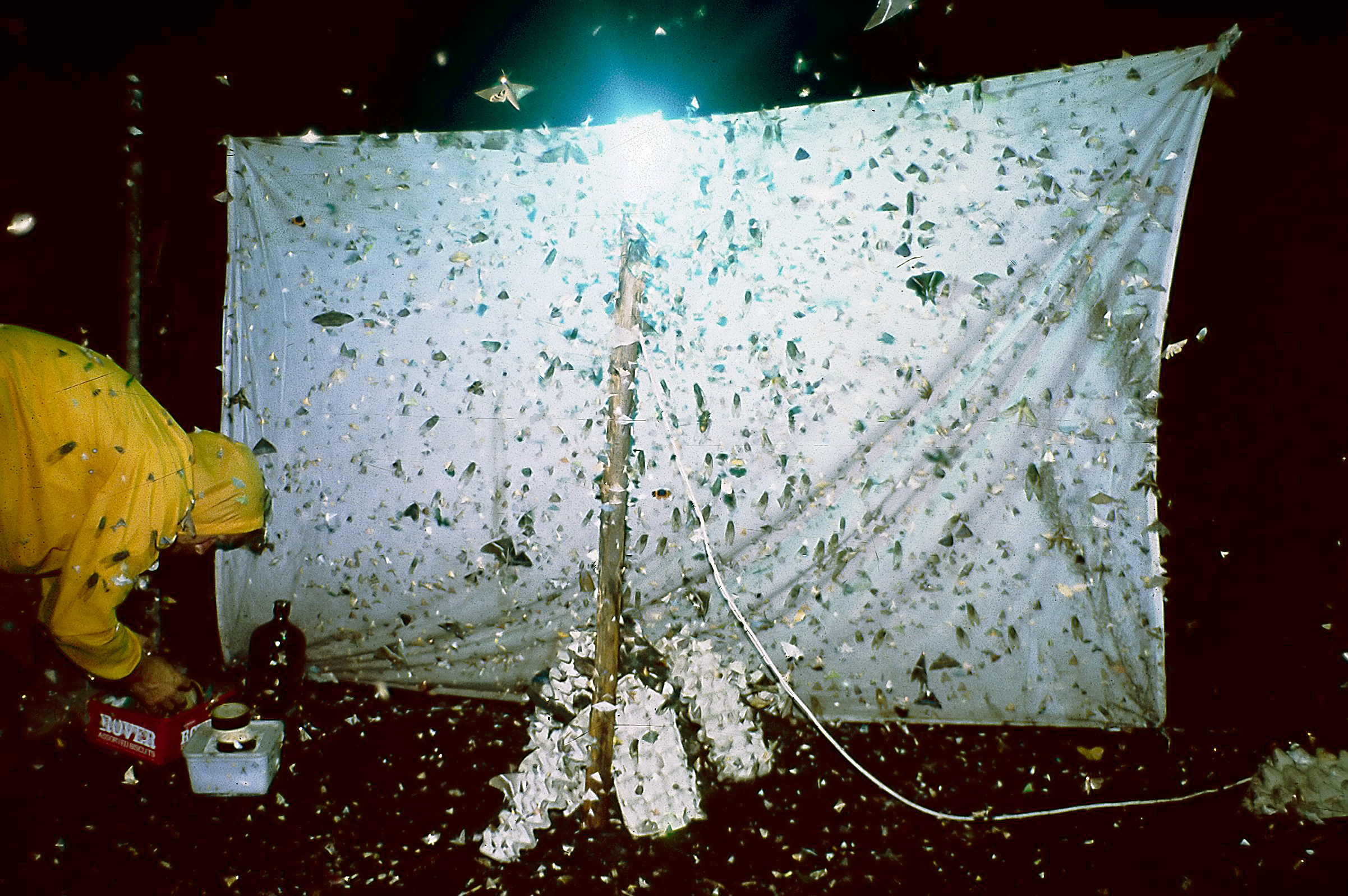 Tony Harman at the moth sheet on Bukit Retak, Brunei in 1982.